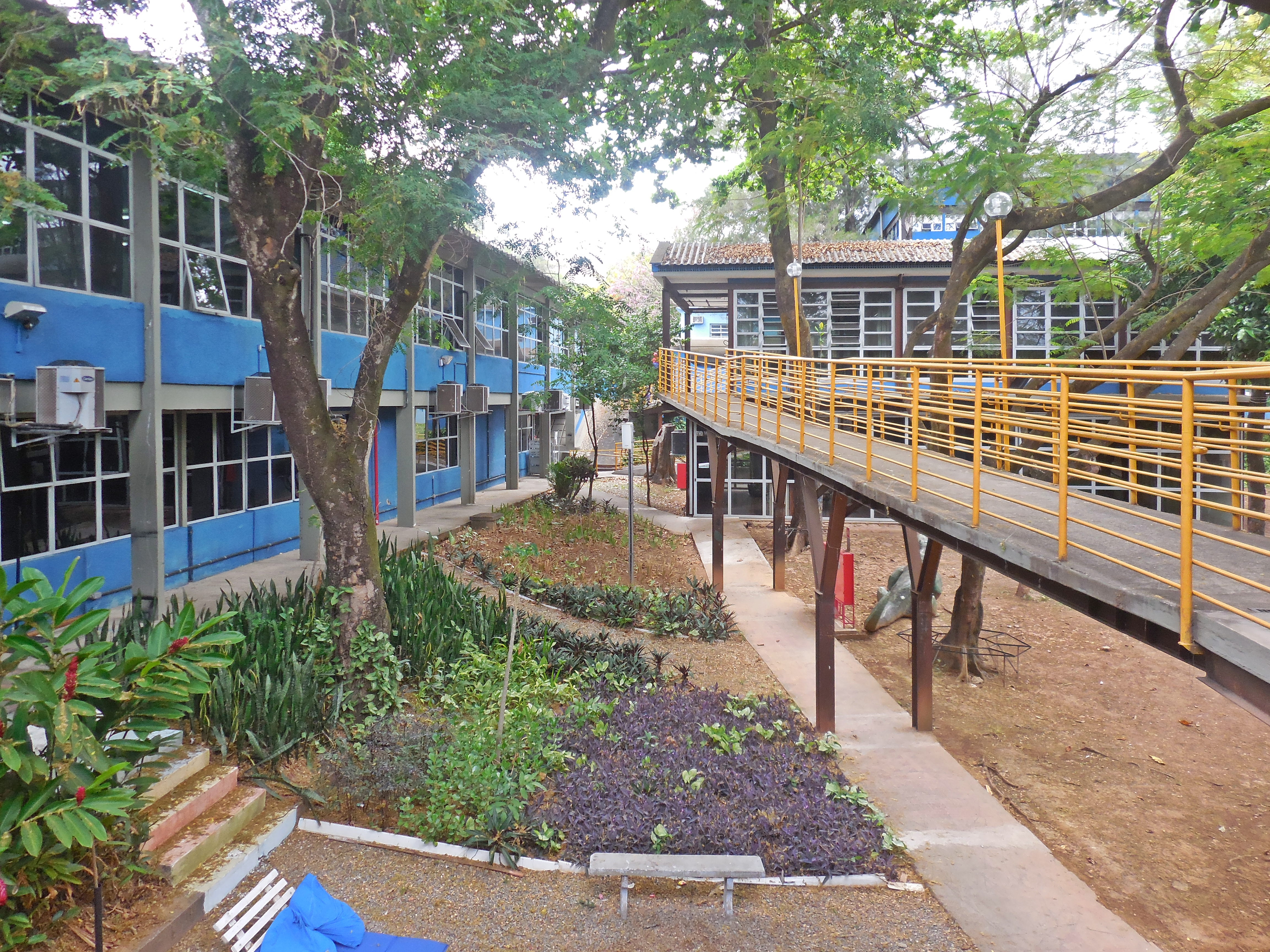 The Block "E" (architecture and urbanism college) of the Centro Universitário do Leste de Minas Gerais (Unileste), in Coronel Fabriciano, Minas Gerais, Brazil.